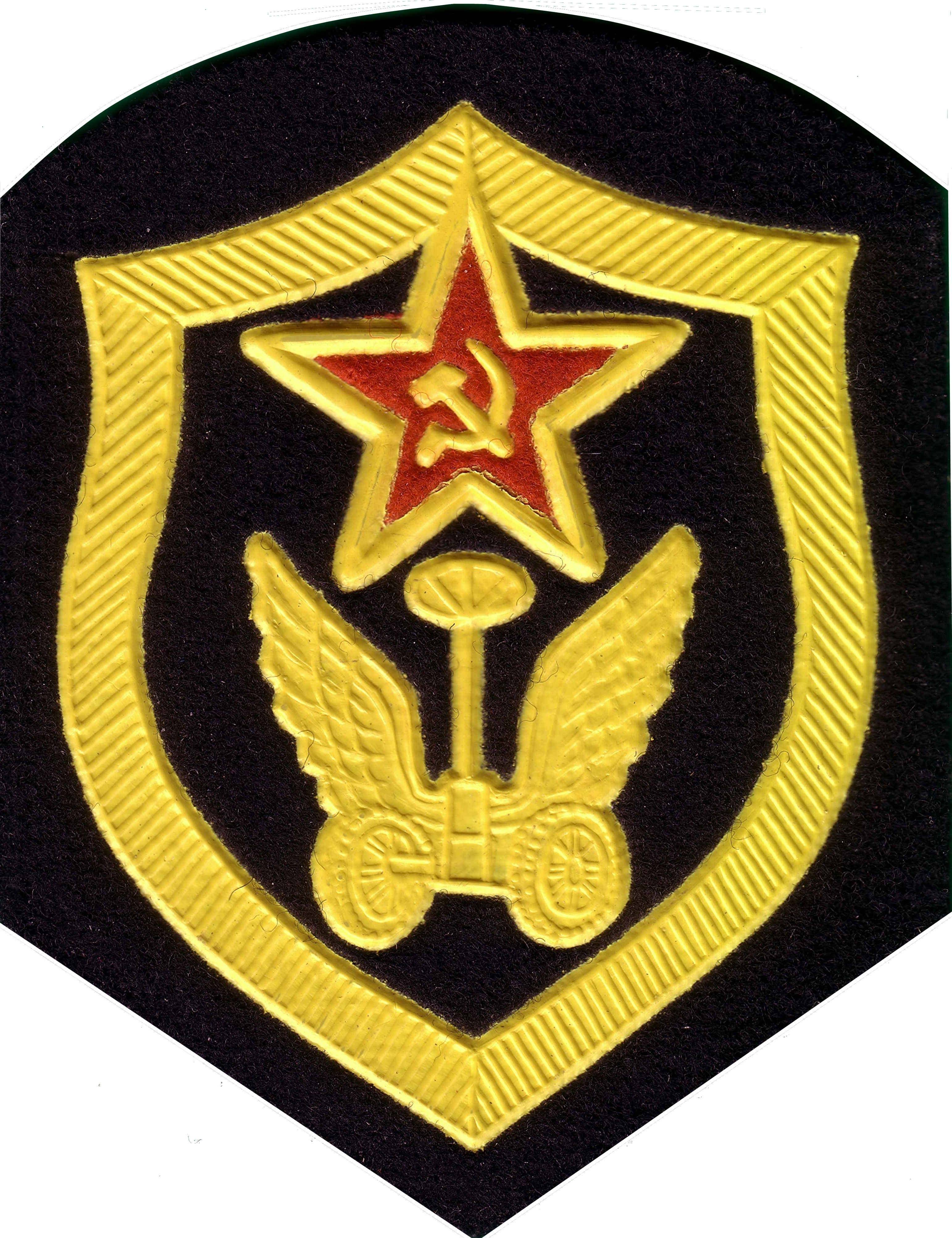 Emblem of the soviet armed forces 1960 to 1991, Soviet Army (military branches, service branches or armed services), sleeve badge (appliquéd) right hand upper arm (dress uniform/ parade uniform) to be used for the ranks OR1 to 8, and WO1 to 2, here: – “Transport vehicle and road troops”, design 1985.